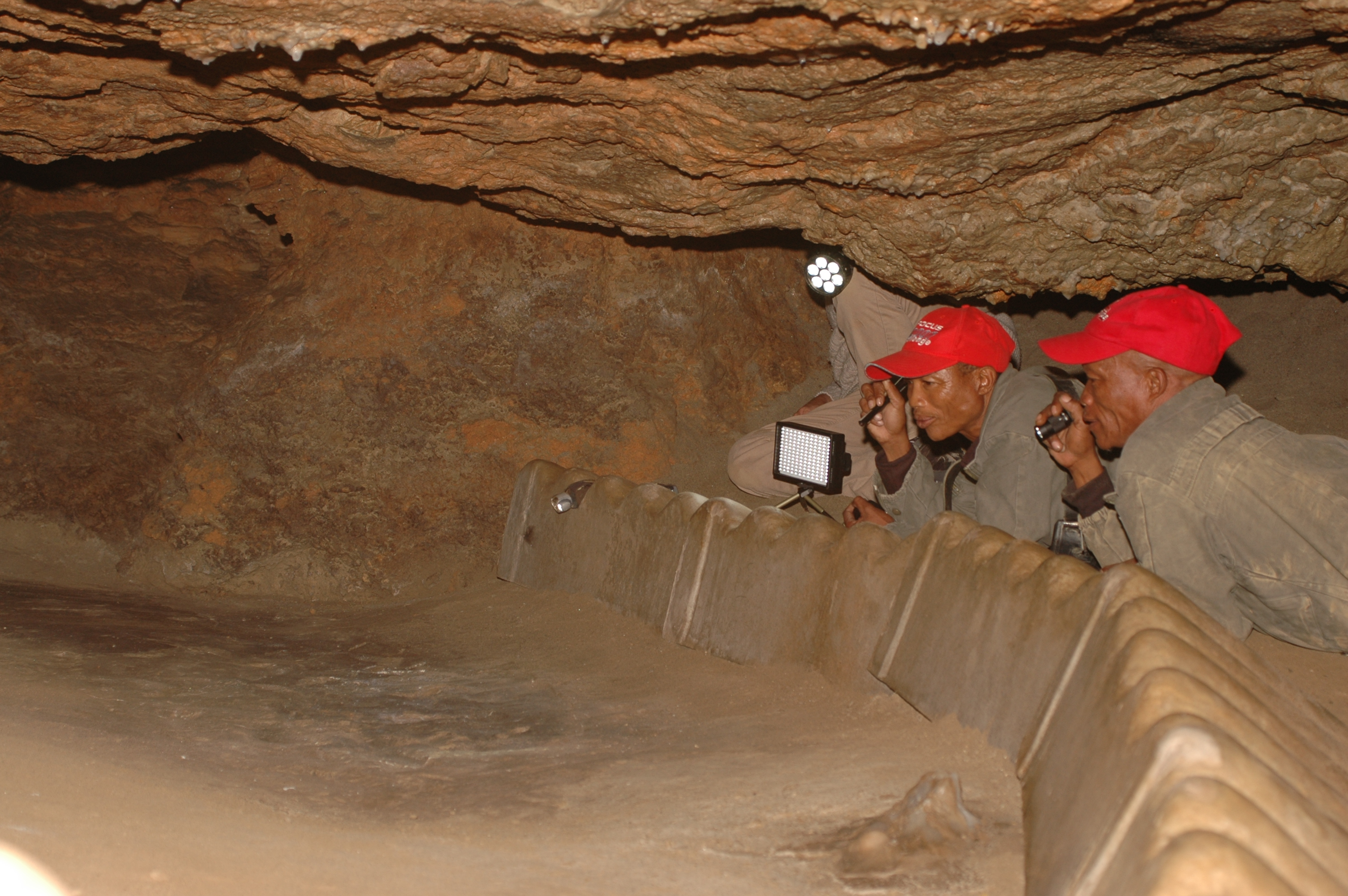 Kxunta and Thao lying on their stomachs in a low cave chamber, looking at the protected track area